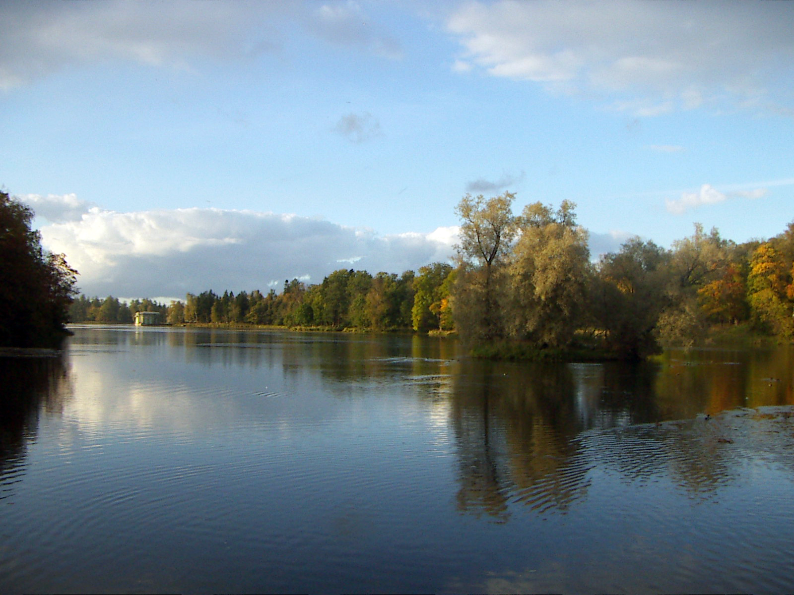 Beloe ozero (White lake) in Gatchina